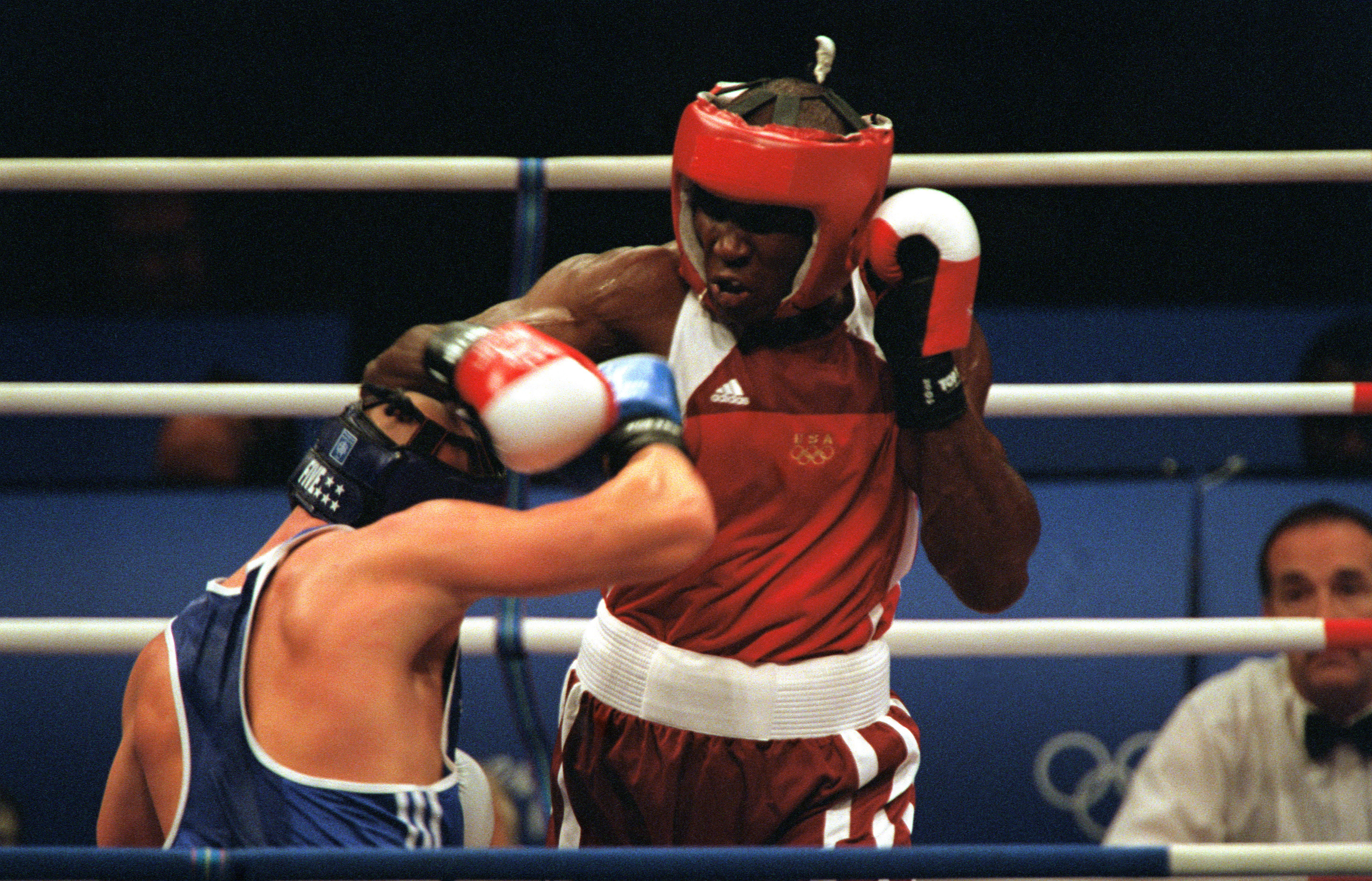 Straight on, medium shot of Olanda Anderson (Red) as he tries to land a punch against Rudolf Kraj, of the Czech Republic, in the Men's 81 Kilogram weight class at the 2000 Olympic games in Sydney, Australia, on September 24th, 2000. SSG Anderson is from the US Army's World Class Athlete Program, and he lost to Kraj by one point, 12-13.